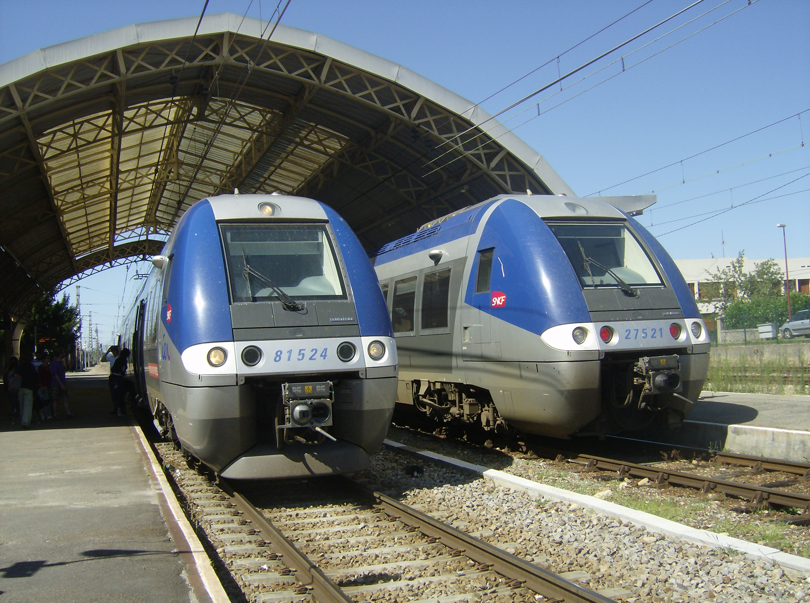 Two trains pass at Pamiers station.